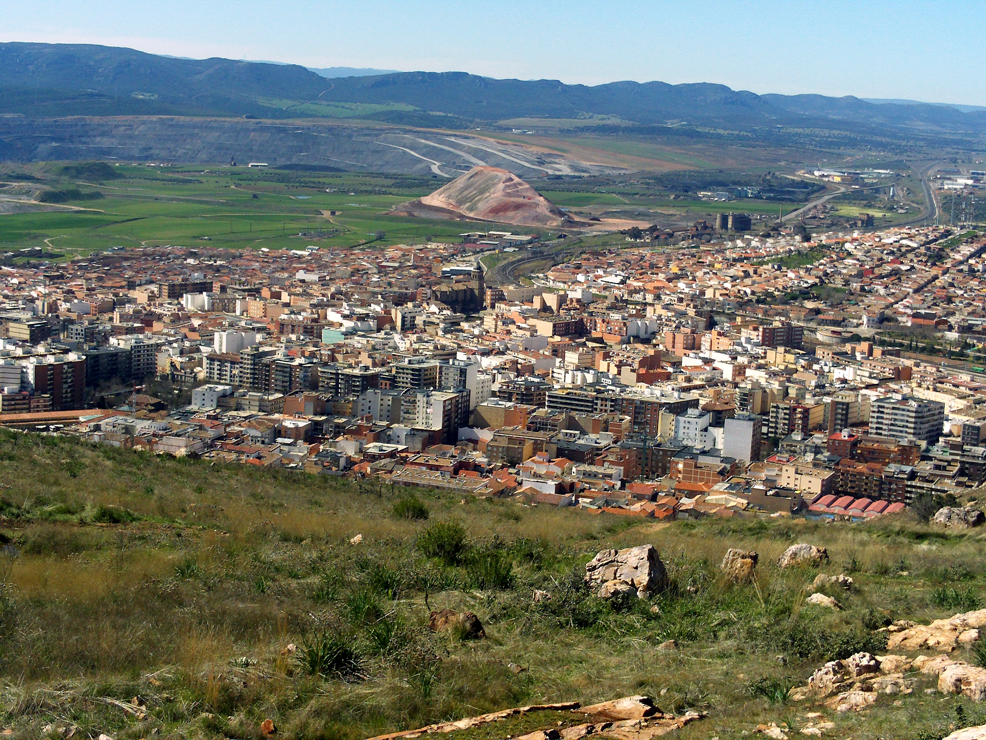 Panoramic view of Puertollano